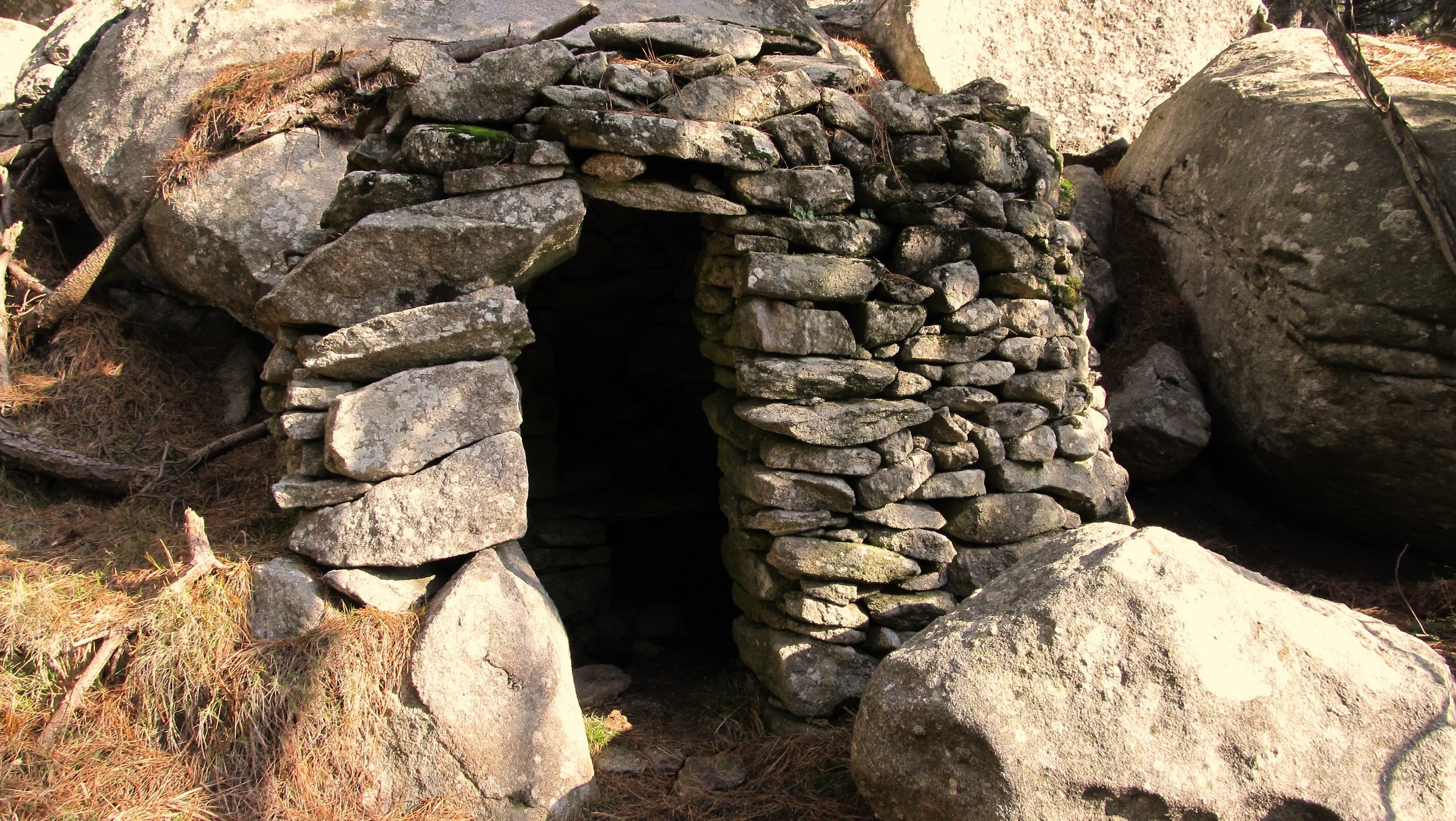 Elba island